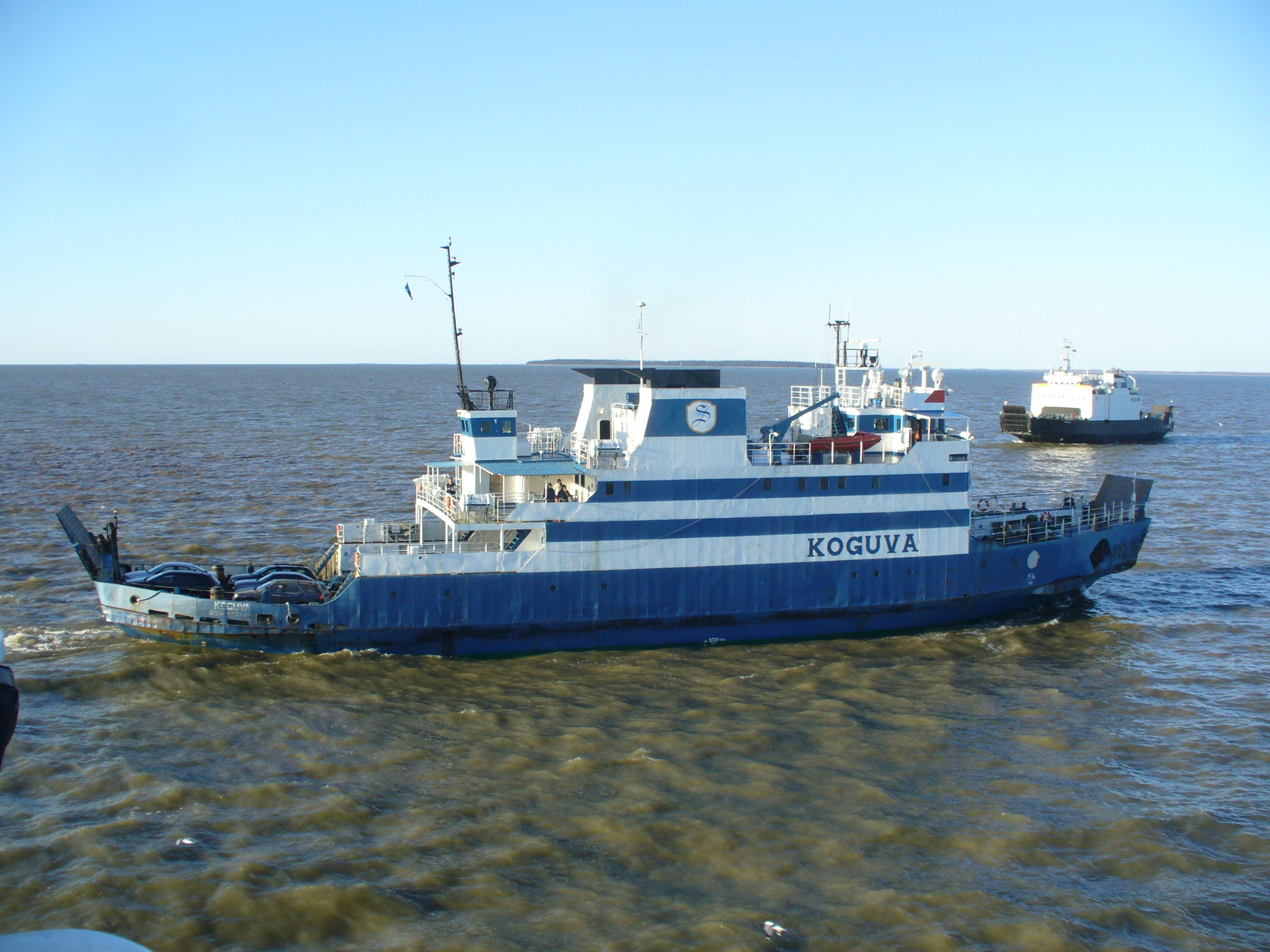 Ferries Koguva and Harilaid near Kuivastu harvour, Estonia. Kesselaid (small island) on the background. Koguva: IMO Number: 7830832 MMSI Number: 276481000 Callsign: ESHS Length: 56 m Beam: 13 m Harilaid: IMO Number: 8727367 MMSI Number: 276456000 Callsign: ES2069 Length: 50 m Beam: 13 m